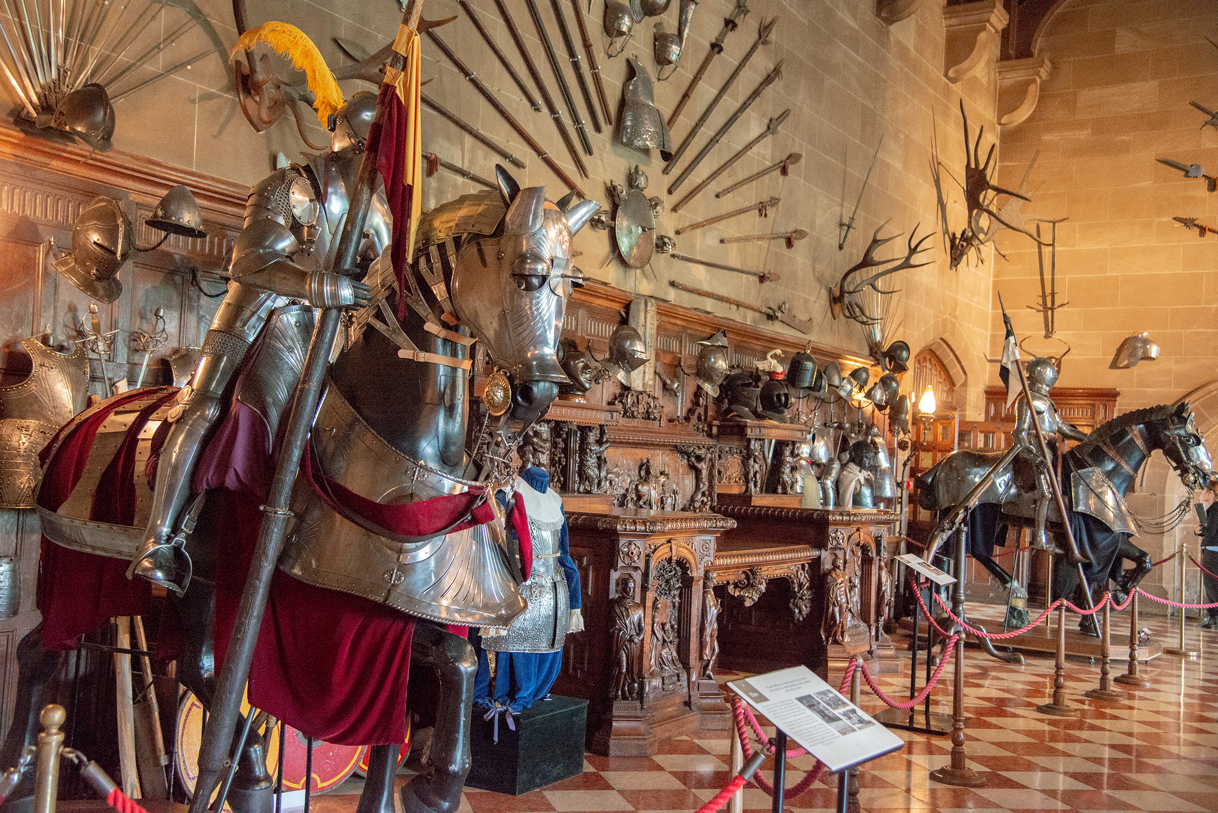 Display of armor and weaponry